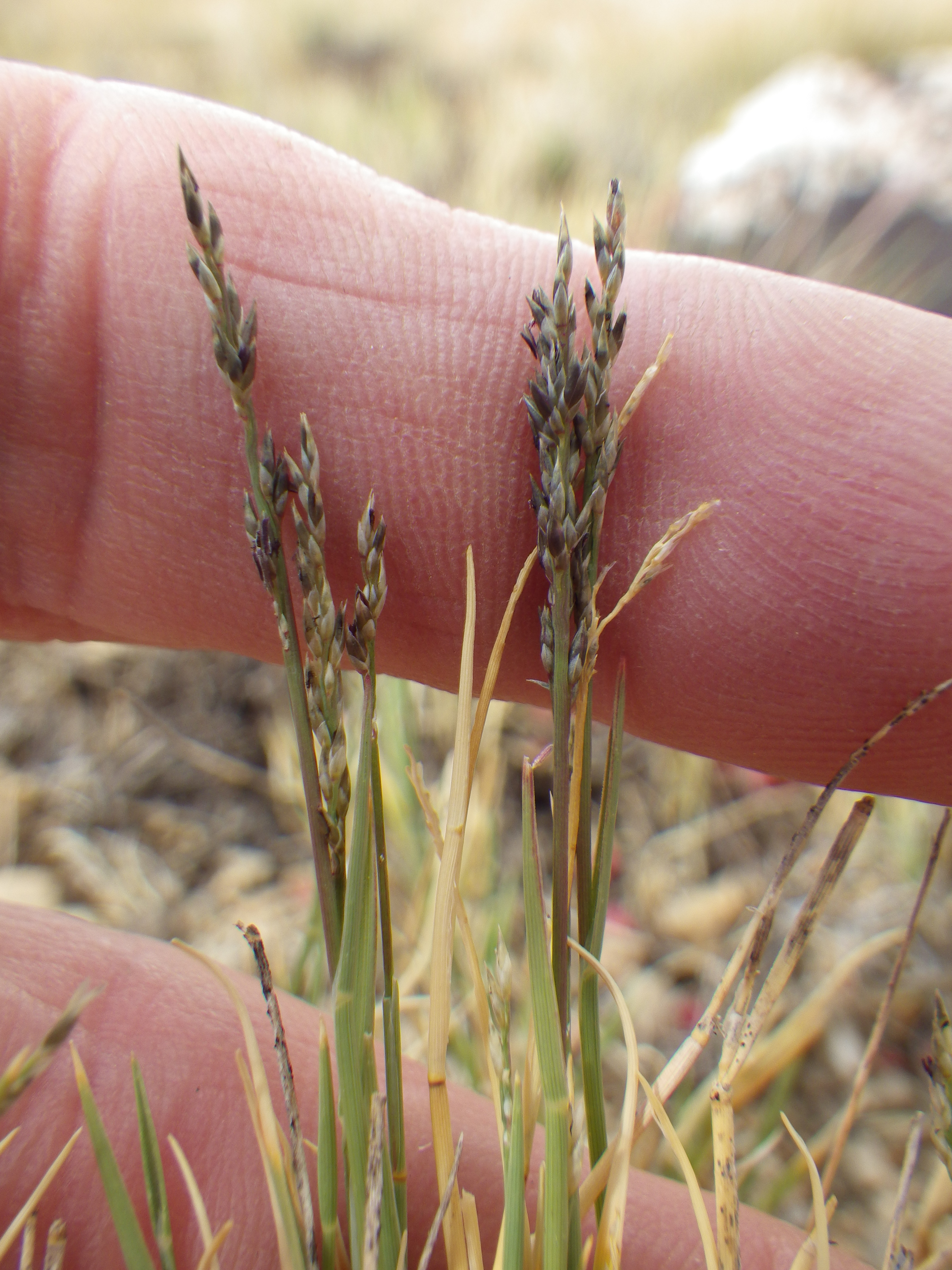 The small spikelets each with a single un-awned floret that is much longer than the adjacent two glumes is characteristic of this species.